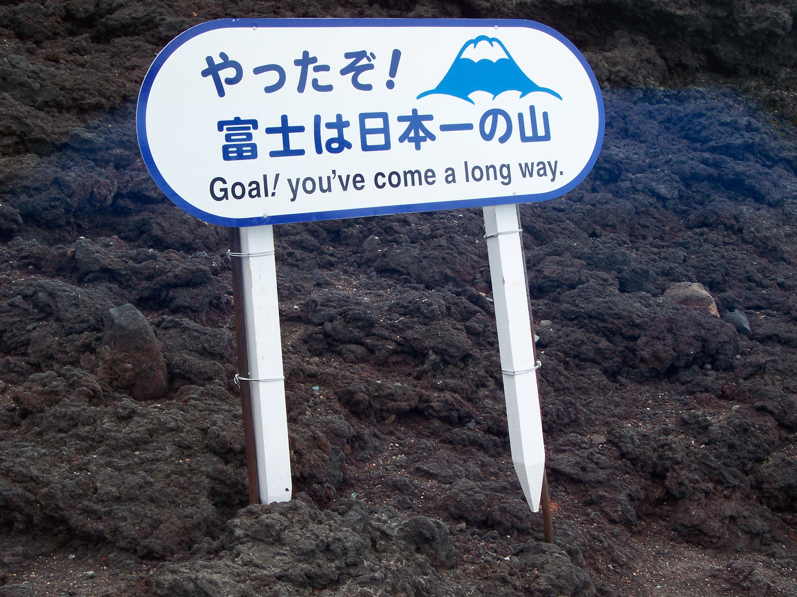 Photo from the Top of Mount Fuji, Japan. Japanese text reads: やったぞ! 富士は日本ーの山 Roughly translated to English "You did it! Fuji is Japan's No. 1 Mountain."